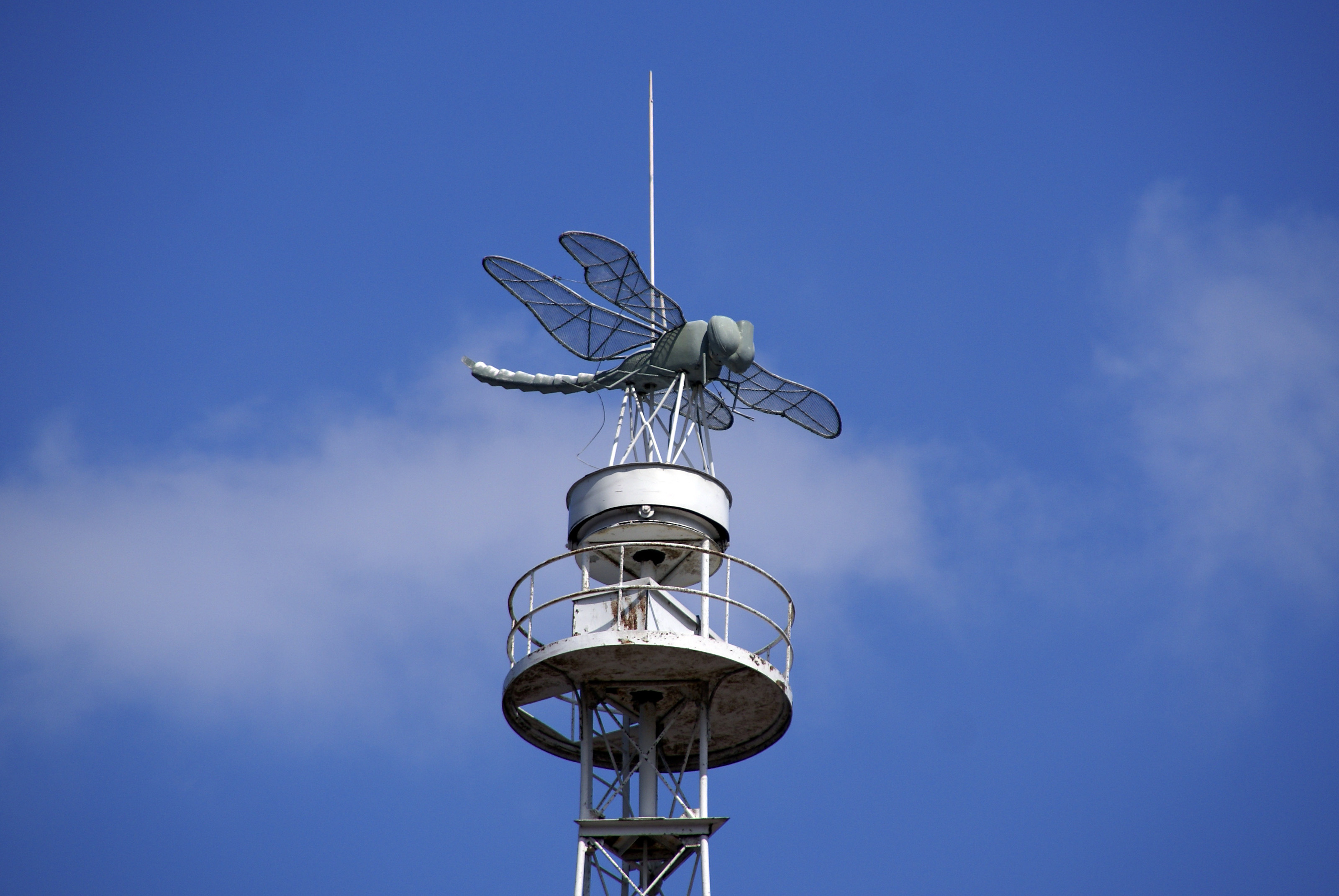 The Museum of Shiga Prefecture, Biwako-Bunkakan in Otsu, Shiga prefecture, Japan